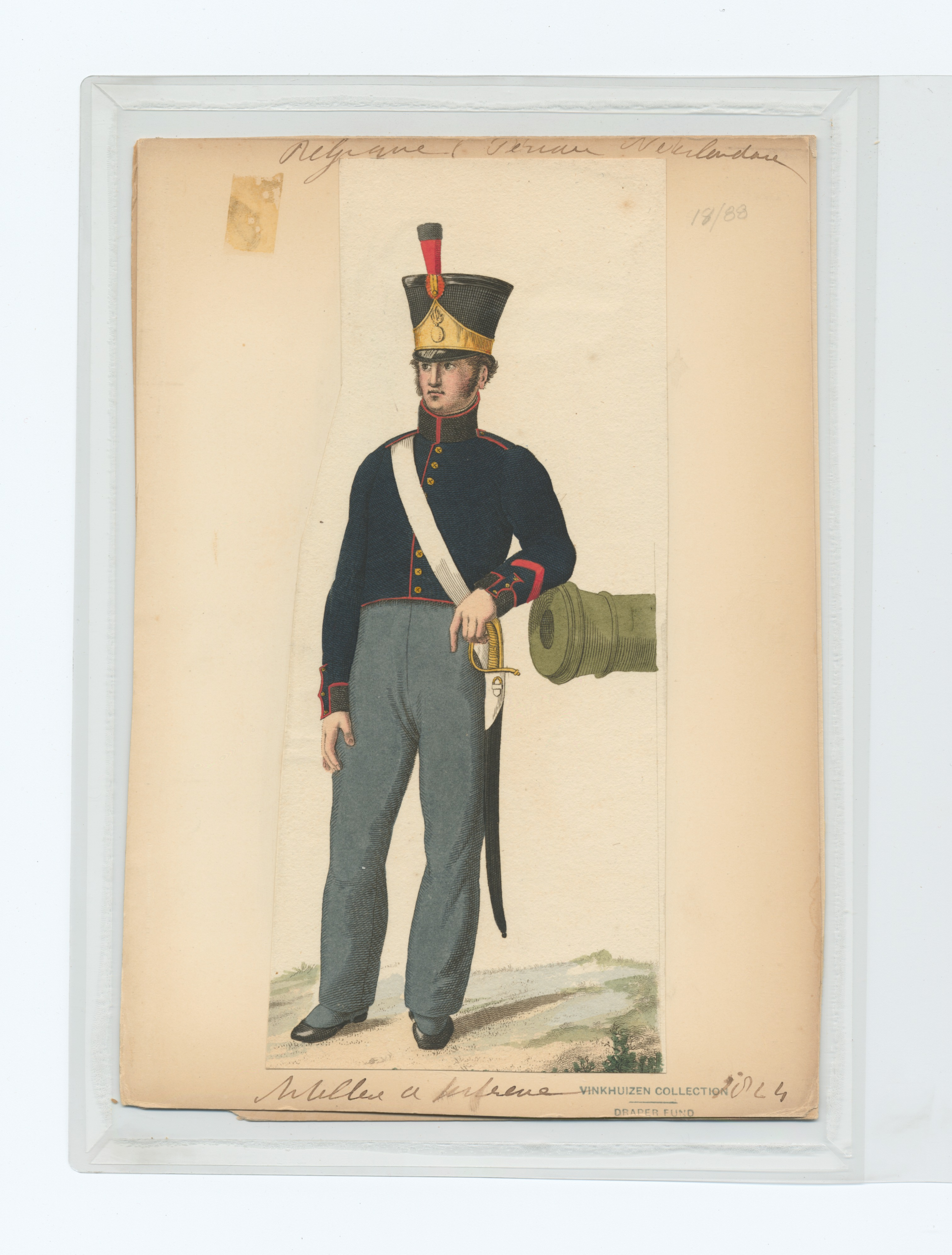 Ownership : Draper Fund (571238) Gunner 1st class, National militia (Teupken)